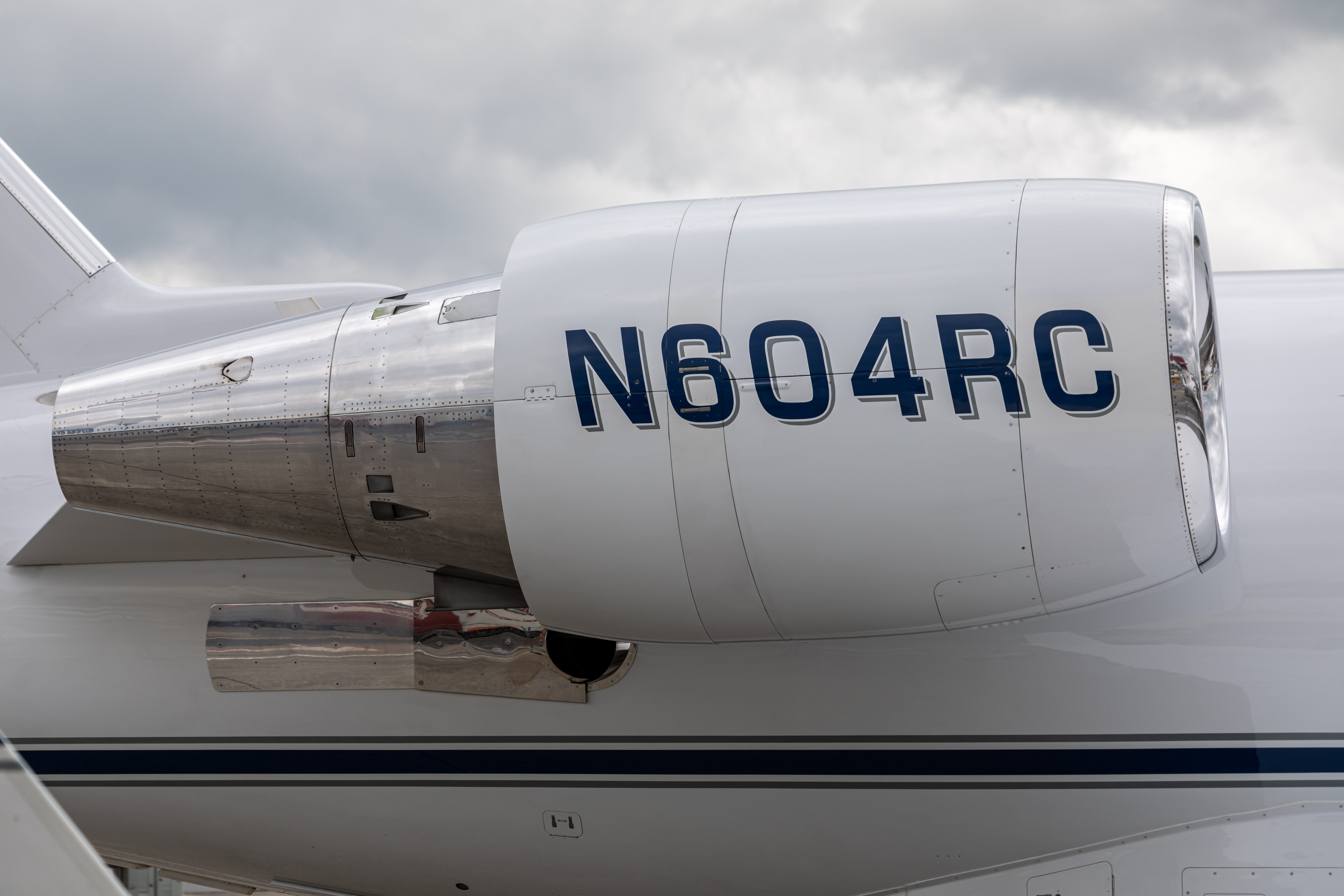 General Electric CF34 turbofan engine of a Bombardier Challenger 604 at EBACE 2019, Palexpo, Switzerland